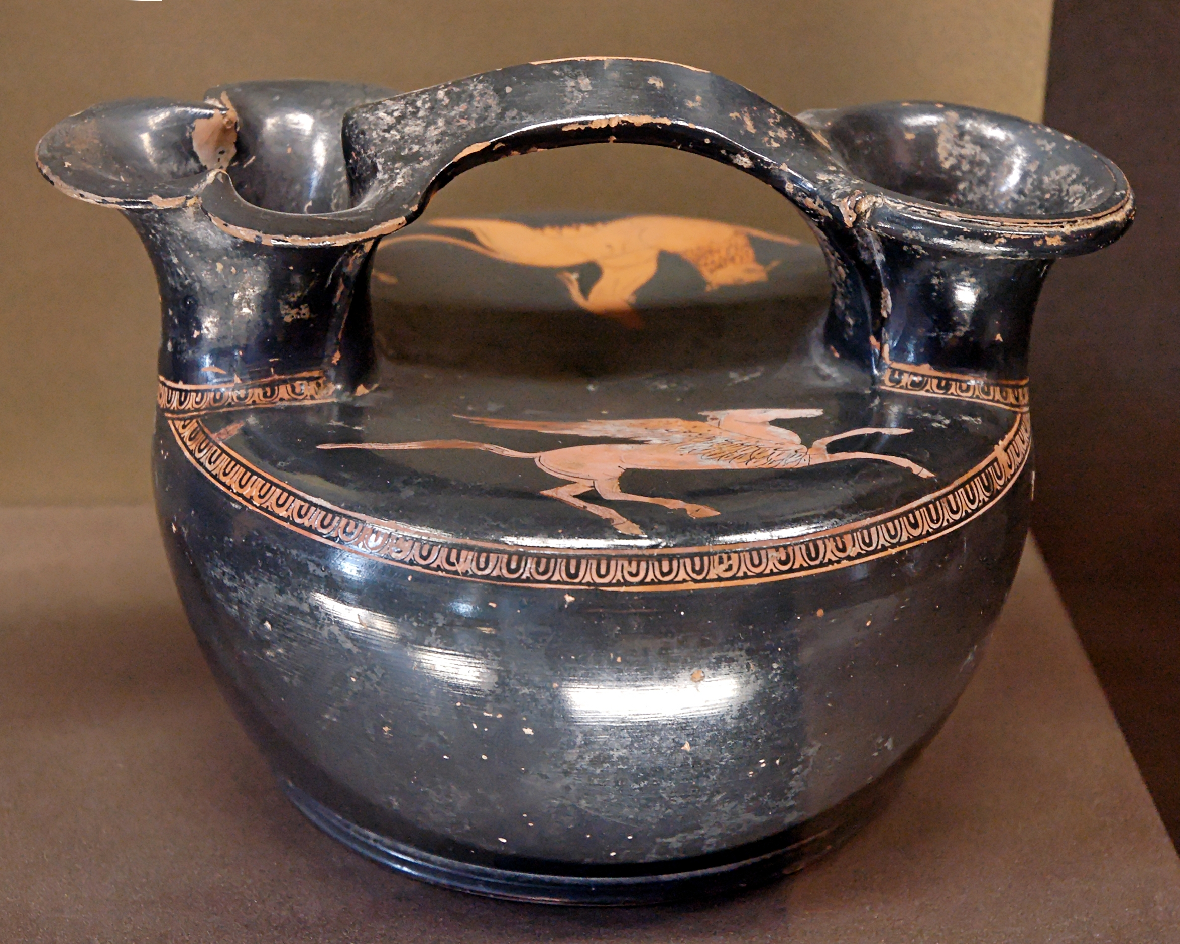 Side A: Pegasus; Side B: Chimera. Attic red-figure askos, ca. 420–410 BC.